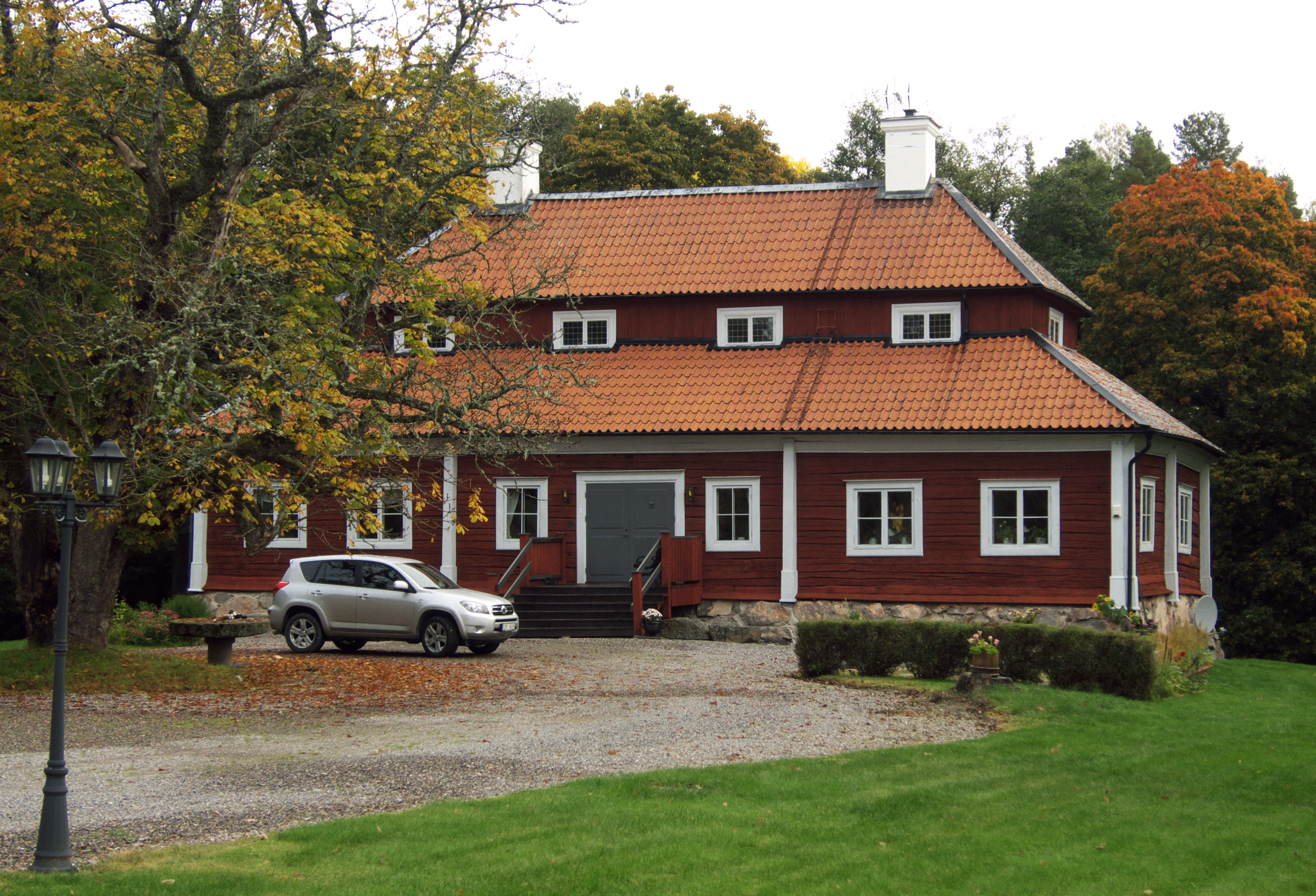 Example of the Swedish, Sateri roof form